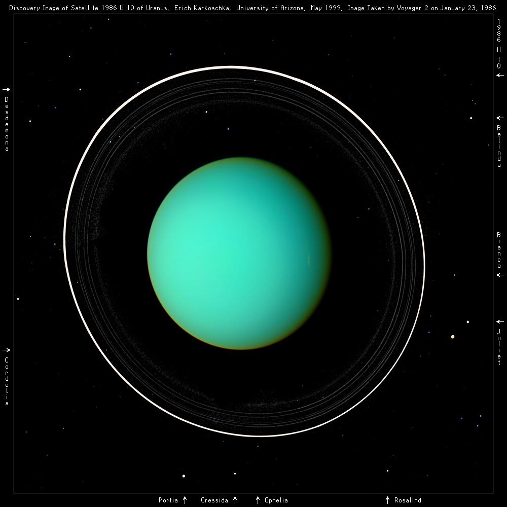 Discovery image of S/1986 U10 of Uranus taken from Voyager 2.